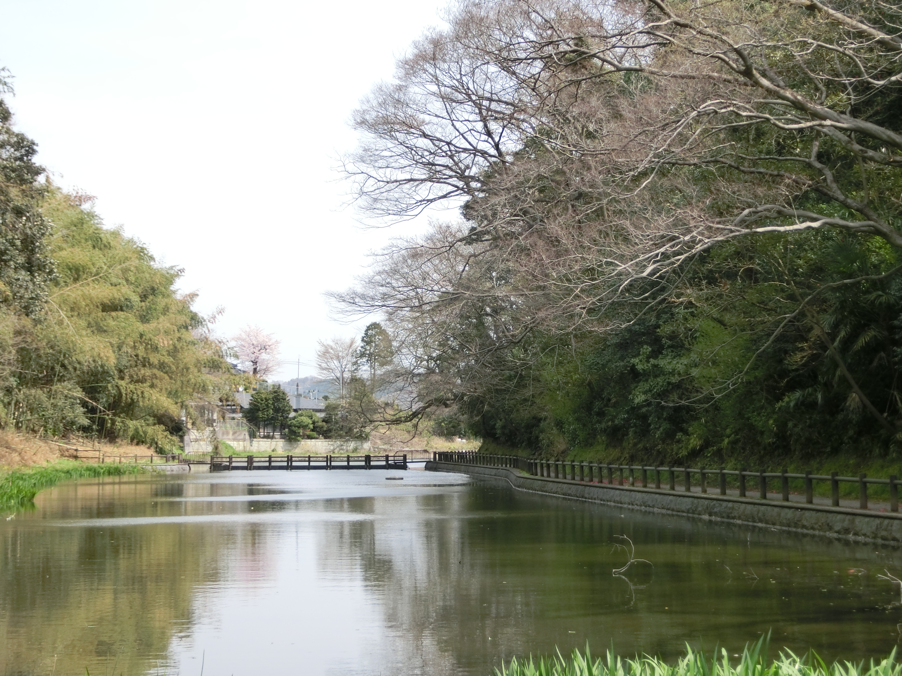 Tangosawa Park